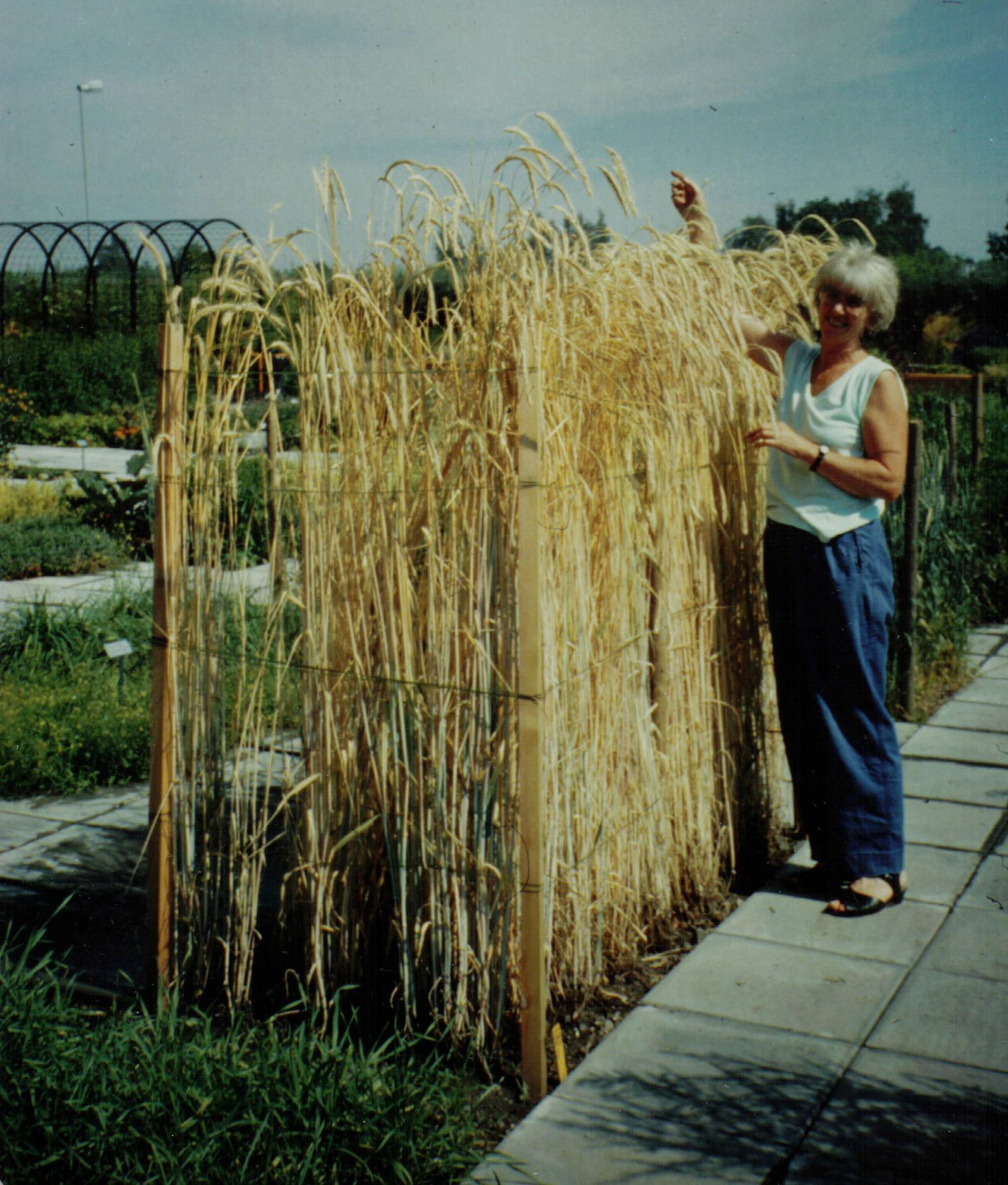 Cecilie Jensen next to swidden rye in the herb garden at the Cathedral ruins, Hamar. A lomskinn with rye (0.5 kg.) was sufficient as bankers seed. It would according to my experience indicate a crop of 6,000 kg. Photo: Per Martin Tvengsberg 1990